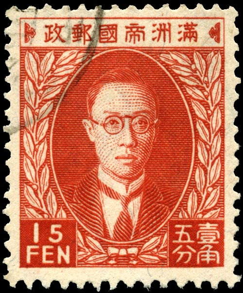 Manchukuo 15-fen postage stamp of 1935.